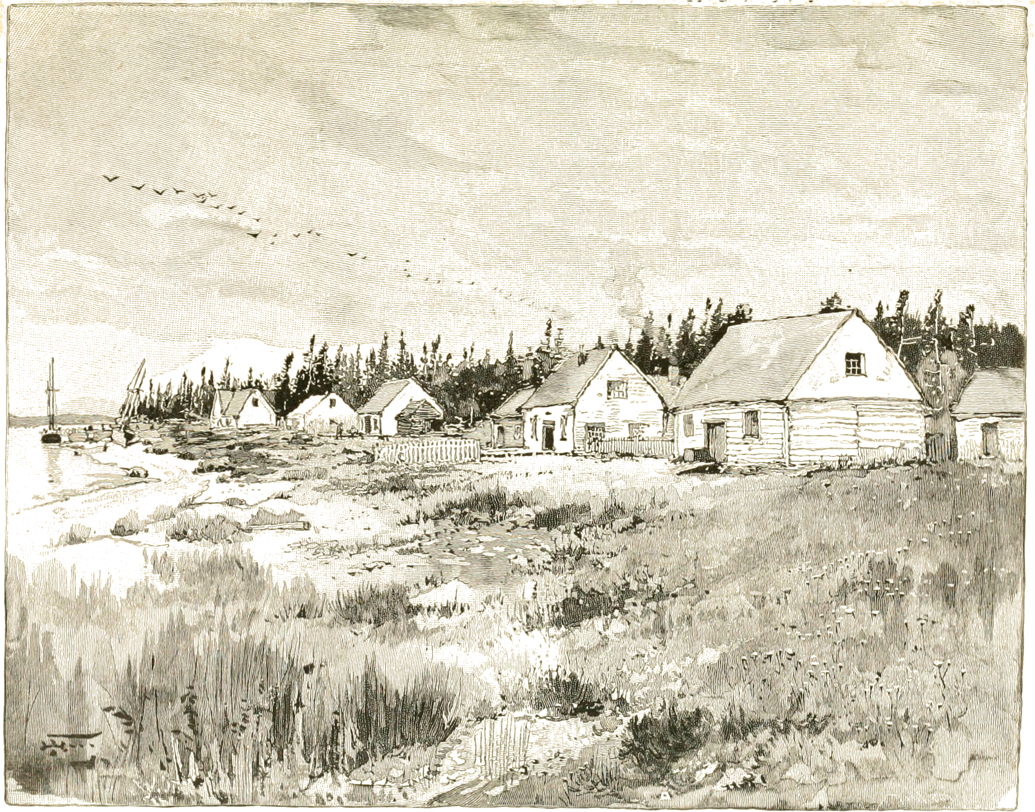 Caption: North-West River Post. (From a photograph.)